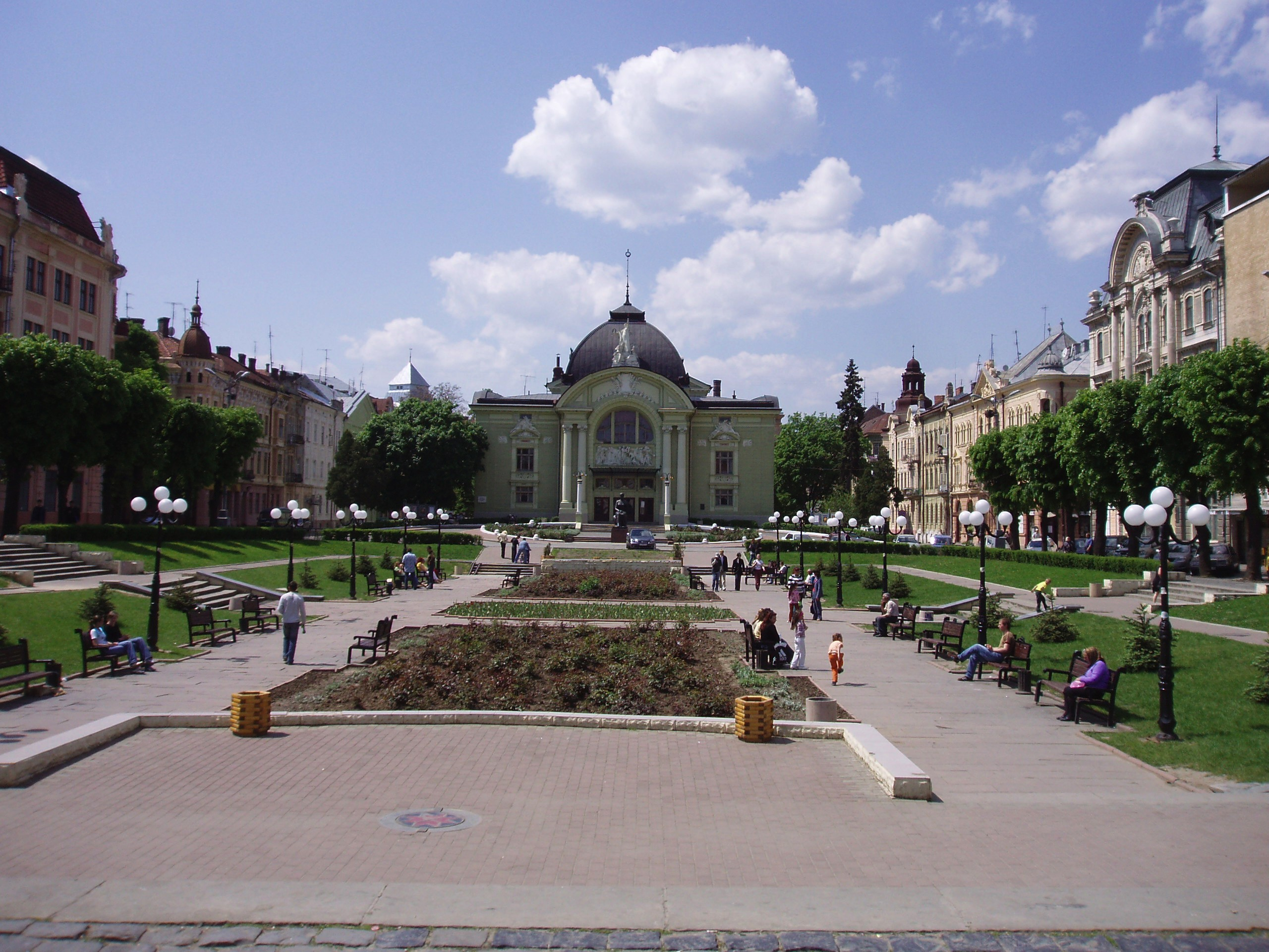 Theatre Square in Chernovci